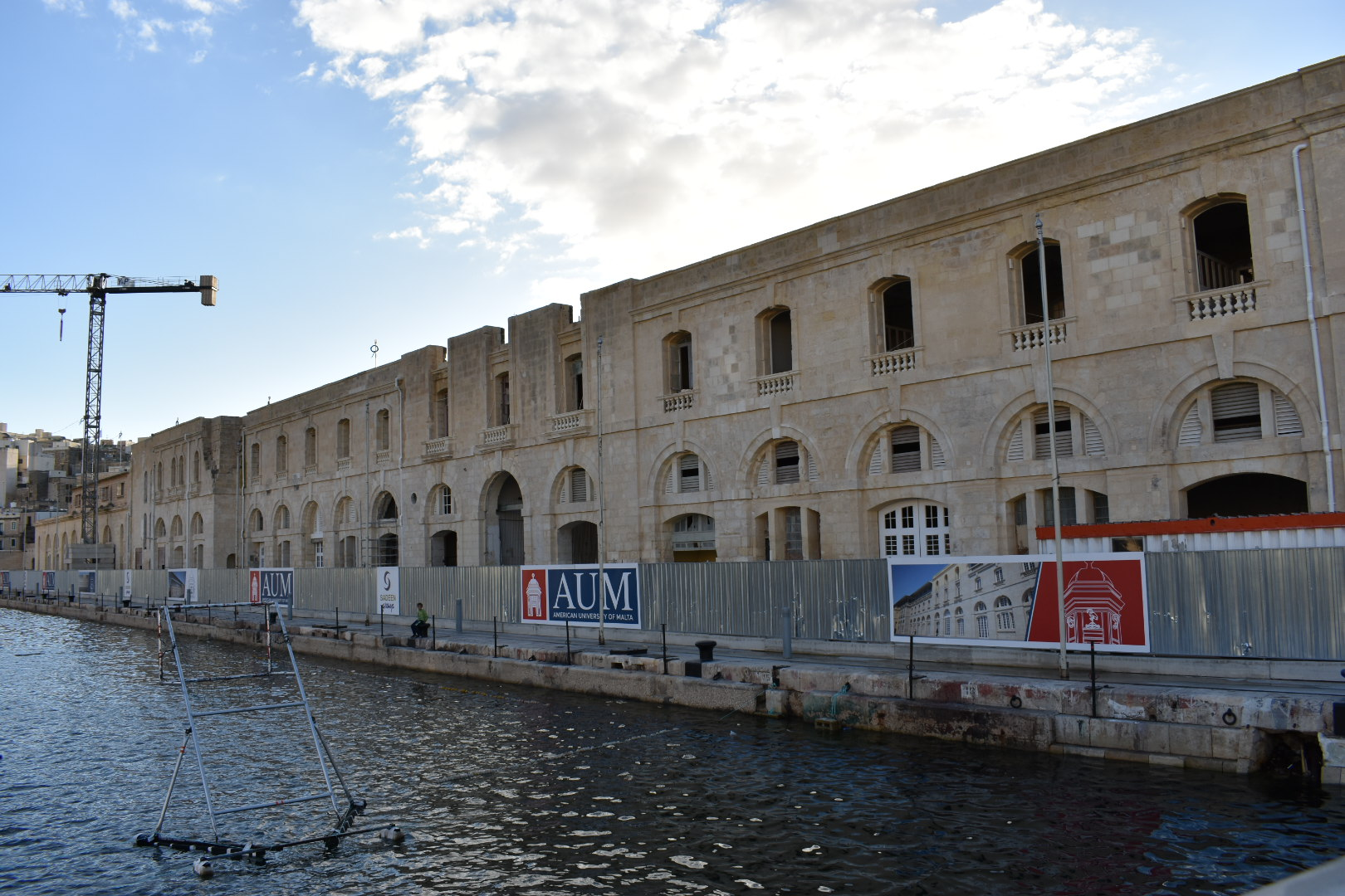 Dock no. 1